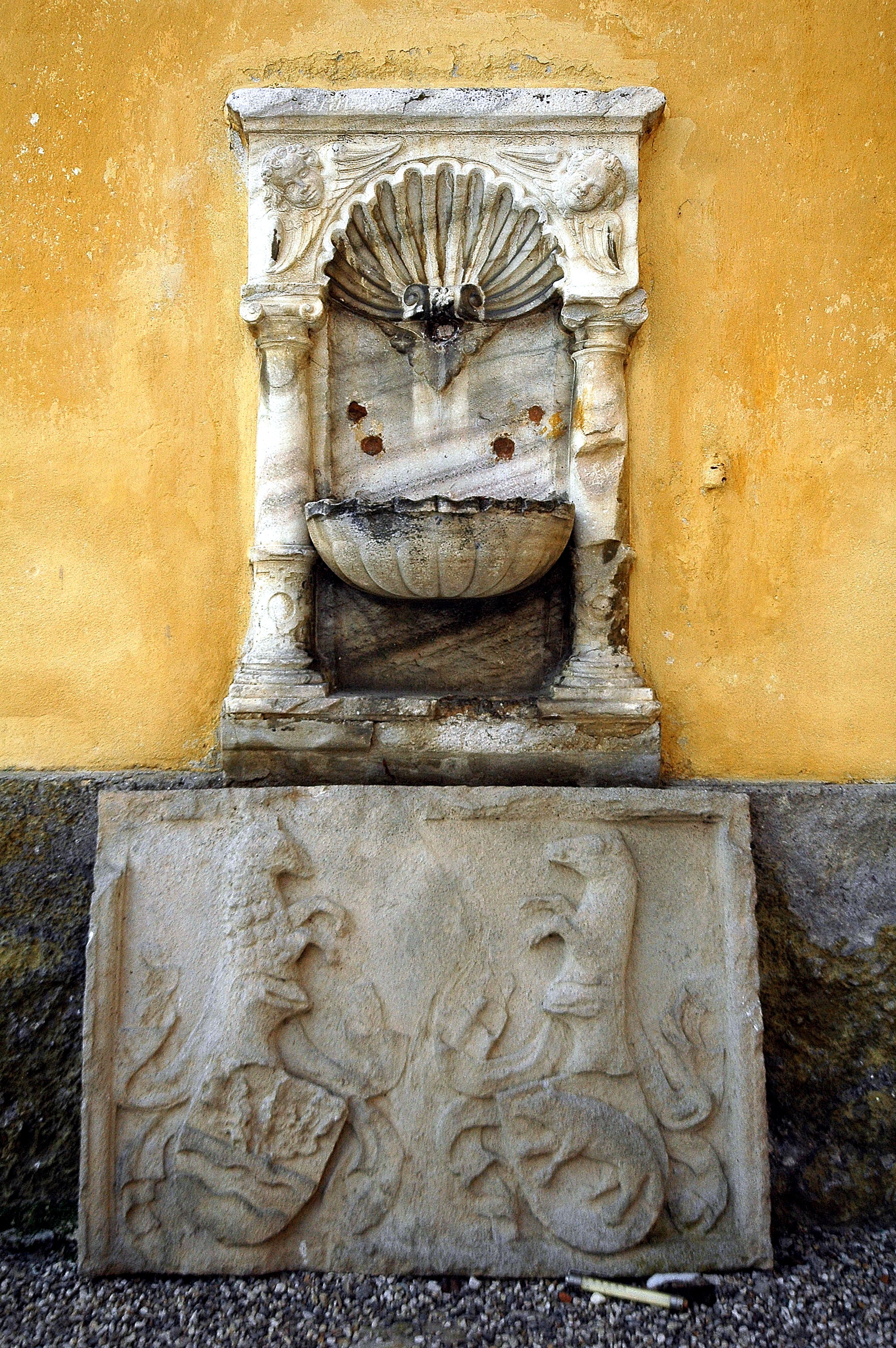 Fountain at the yard of castle Damtschach, municipality Wernberg, district Villach Land, Carinthia, Austria, EU